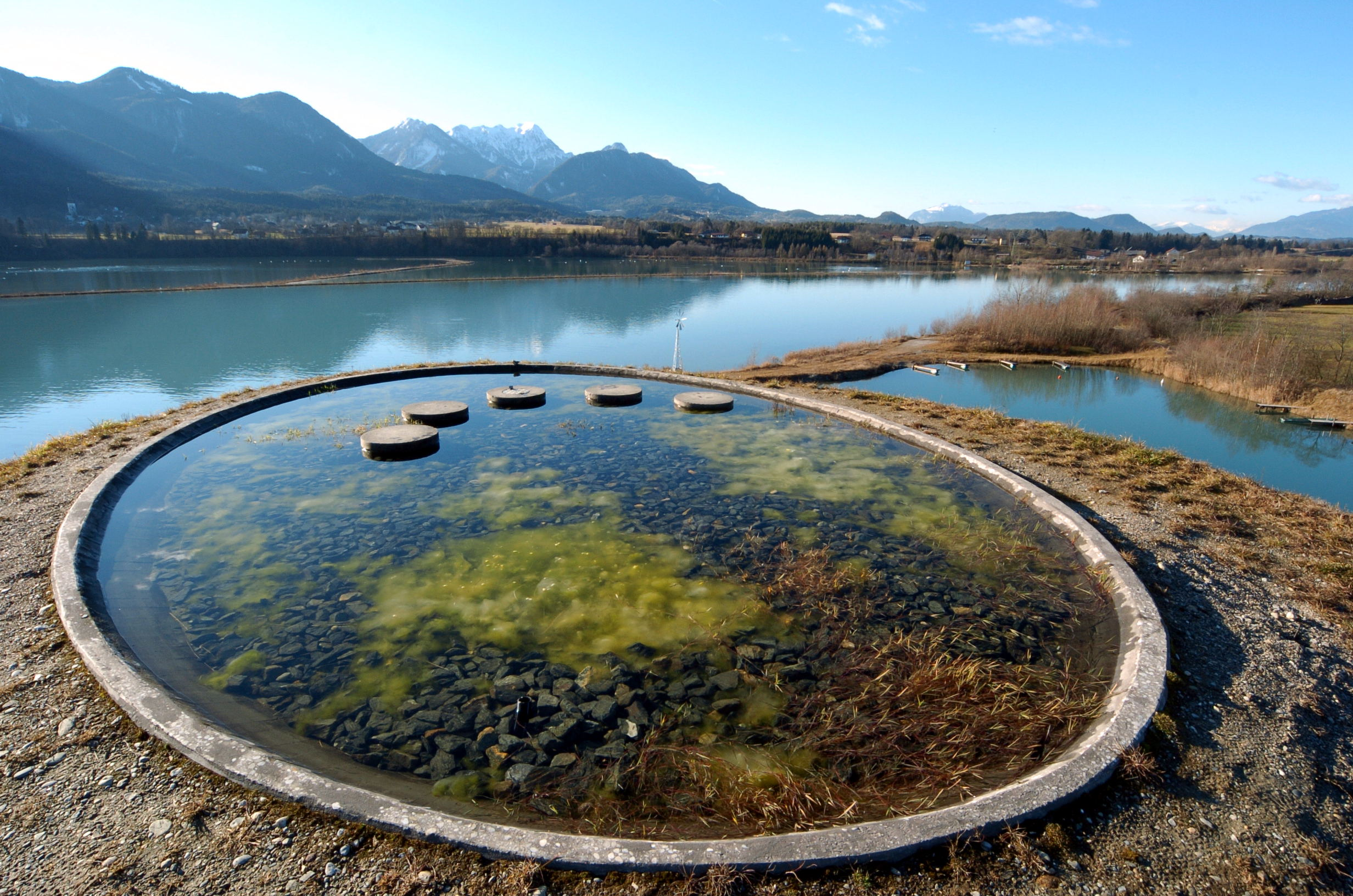 Design on top of the “Zikkurat” (land-art project created by the artists Ed Hoke, Tomas Hoke and Armin Guerino) on a peninsula at the reservoir of the river Drau near Selkach (Želuče) in the community Ludmannsdorf (Bilčovs), district Klagenfurt-Land, Carinthia, Austria